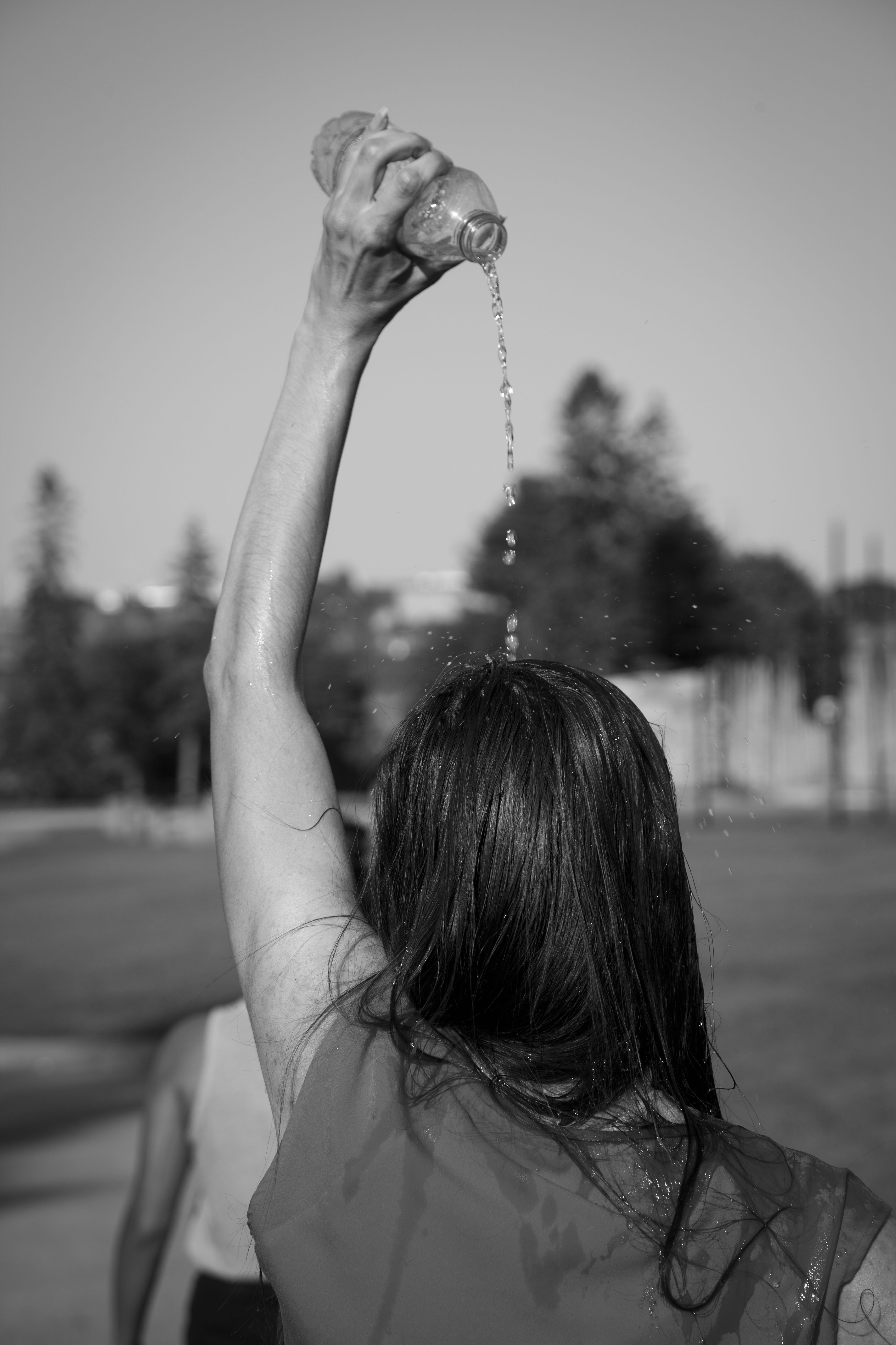 Equinox